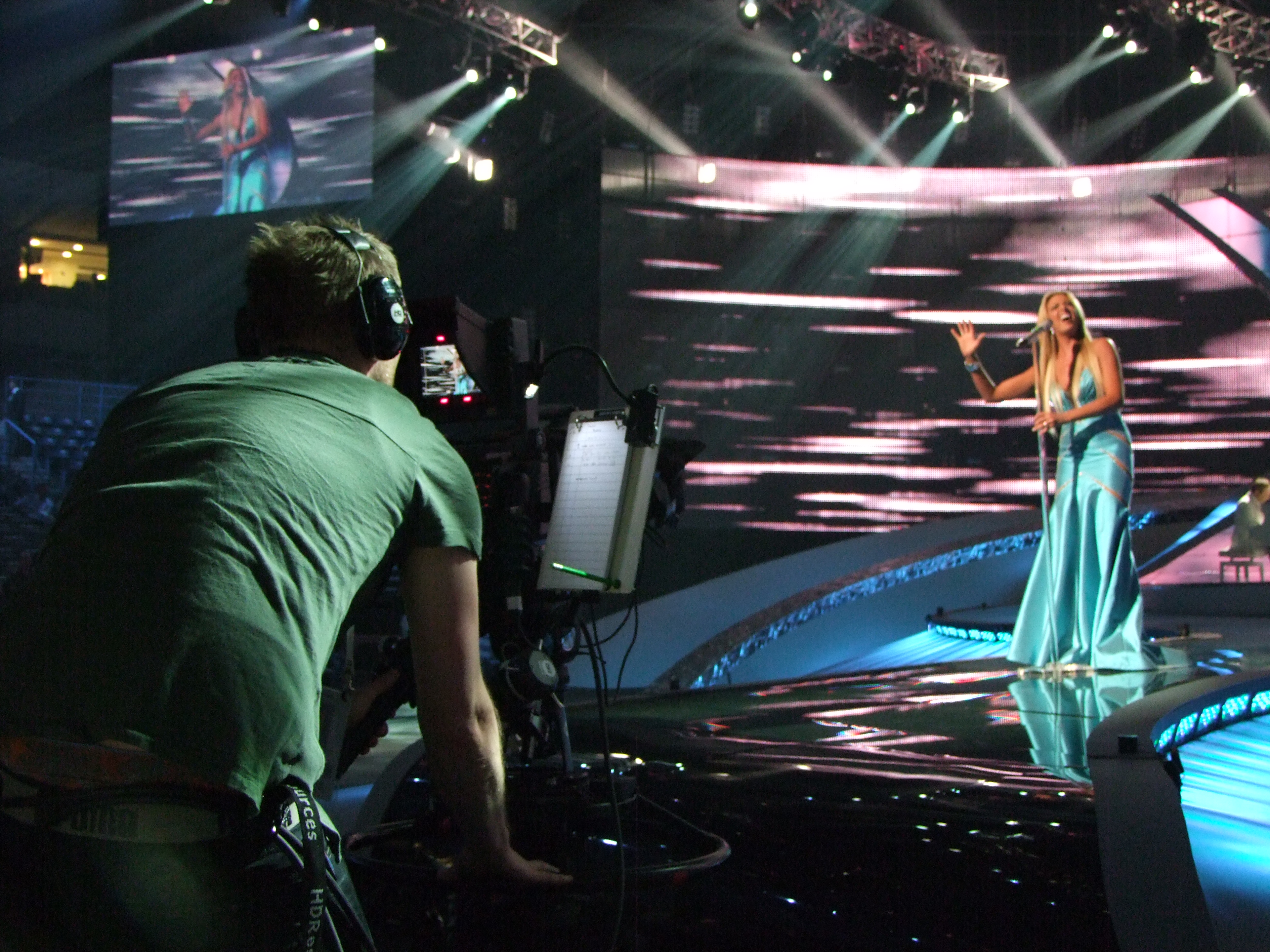 Camera recording the performance of Isis Gee at the first semifinal of the Eurovision Song Contest 2008.